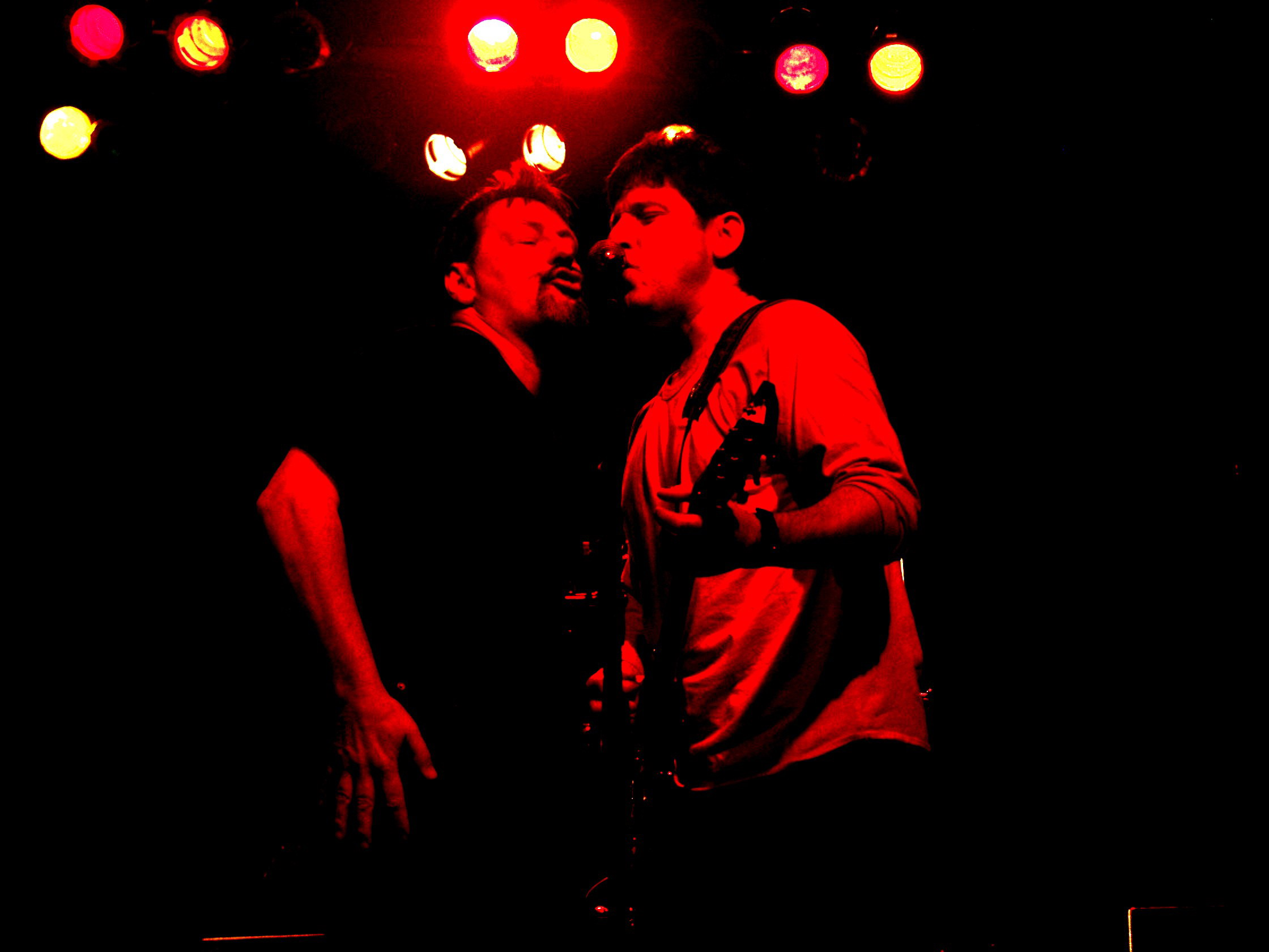 Taken at the Seminole Hard Rock Casino, Hollywood, Florida